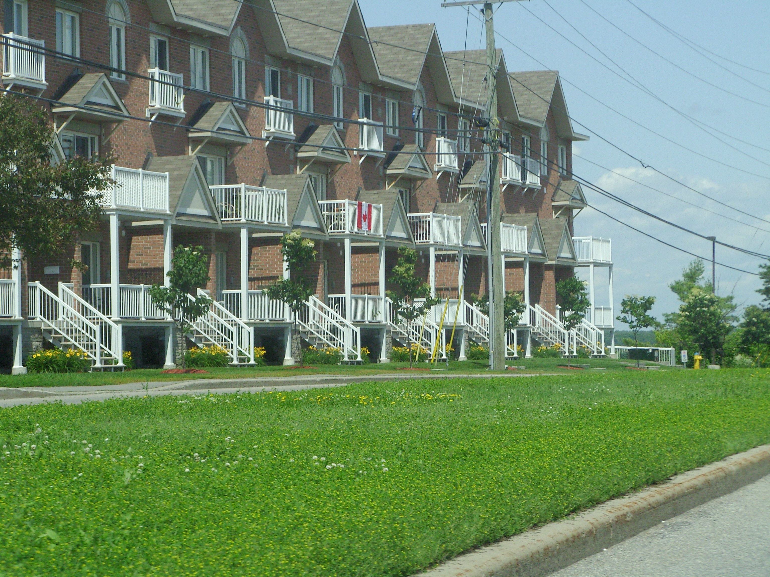 Garden homes in Orleans.